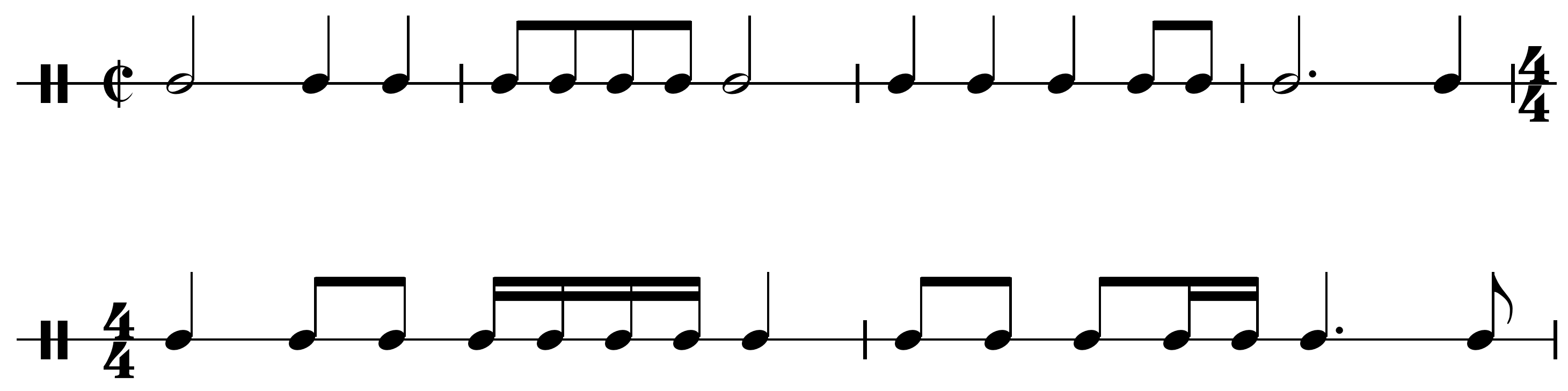 Rhythm in 2/2 followed by the same rhythm notated in 4/4. Note there are more eighth and sixteenth notes in the 4/4 version versus eighth and quarter notes in the 2/2 version, one of the reasons 2/2 is typically easier to read at faster tempos.